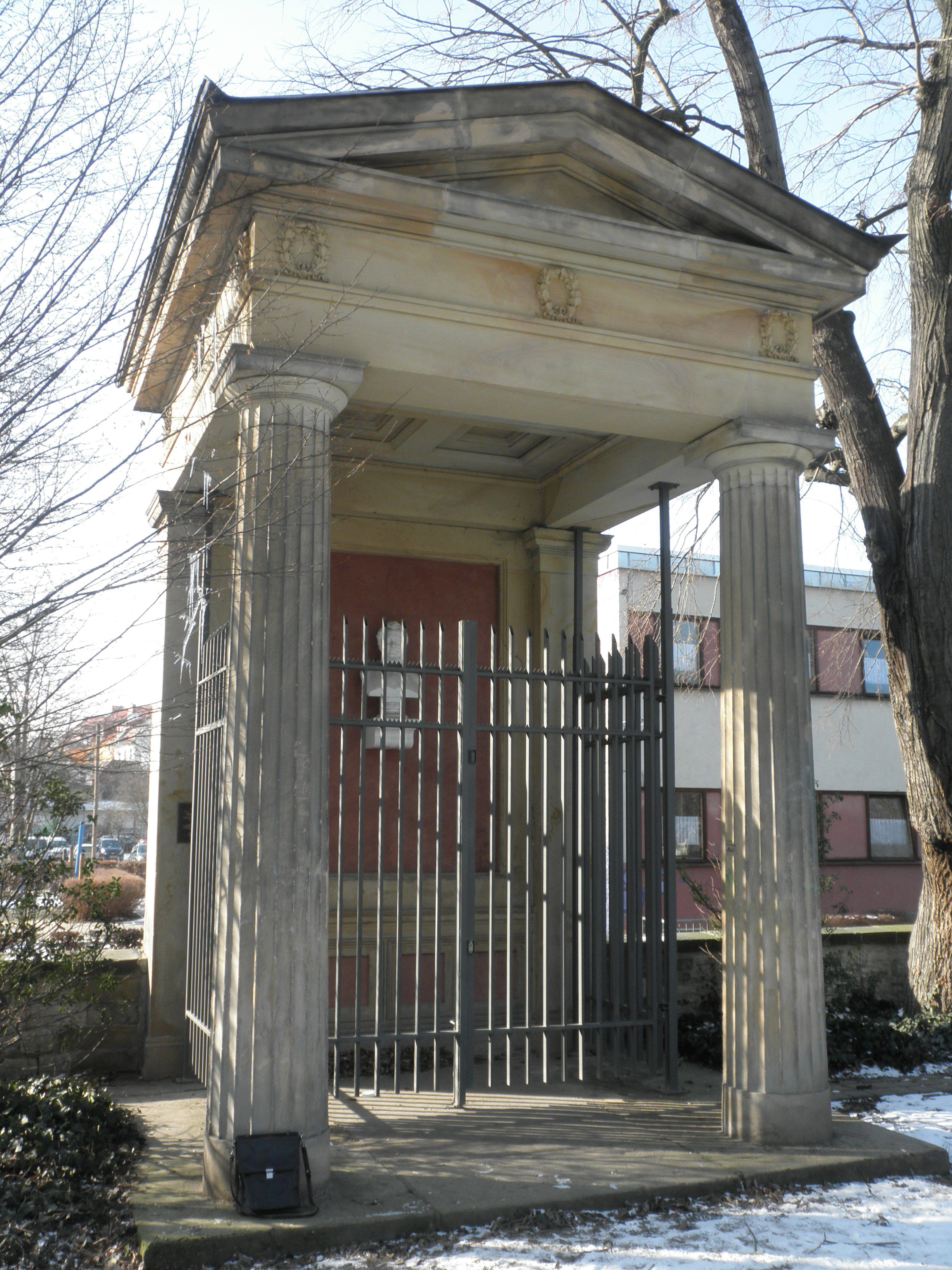 Tomb of Karl von Müffling in Brühler Garten in Erfurt